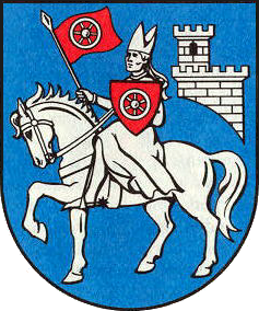 Coat of Arms of Heilbad Heiligenstadt